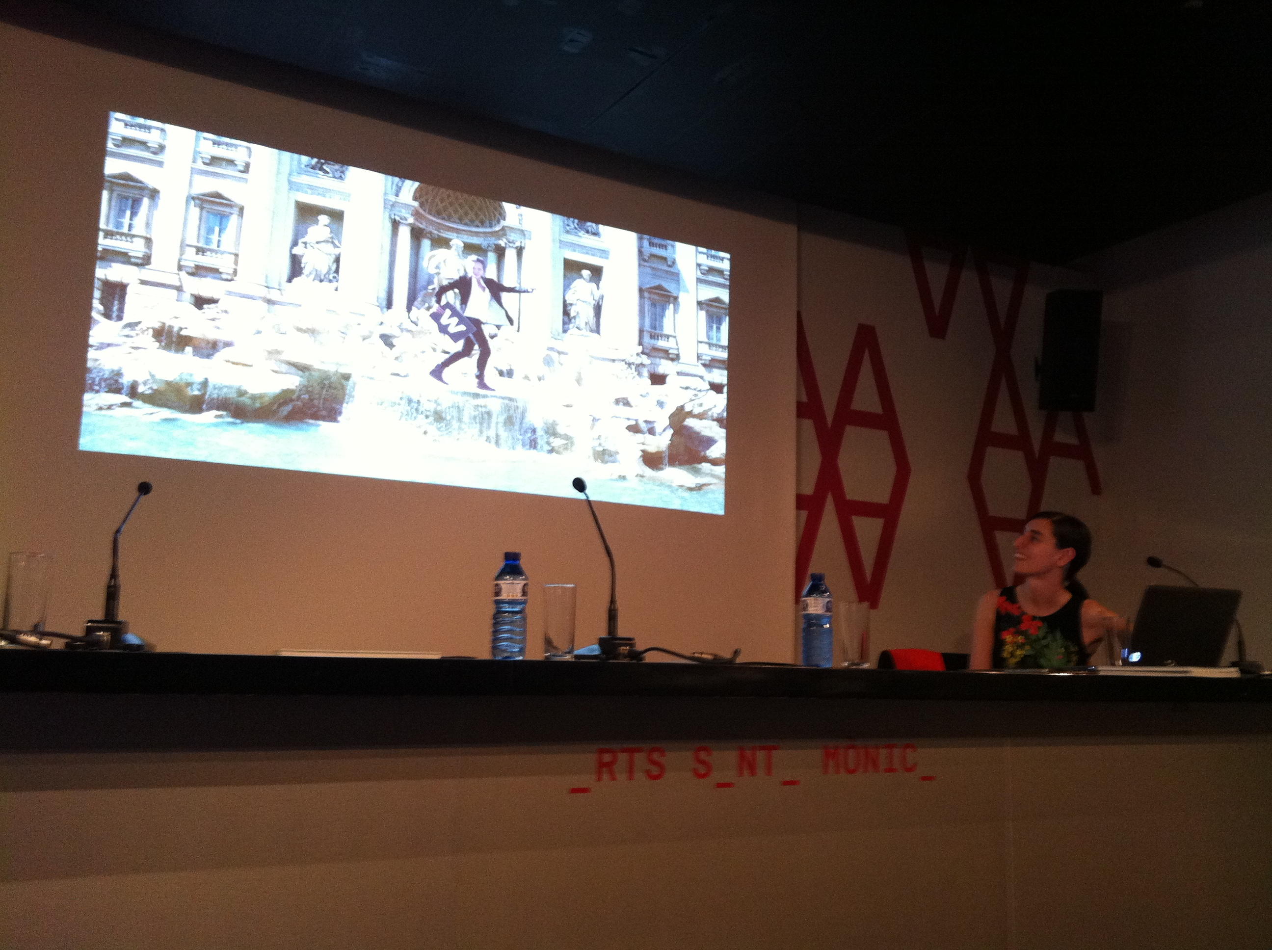 Wikiartmap presentation at Arts Santa Mònica